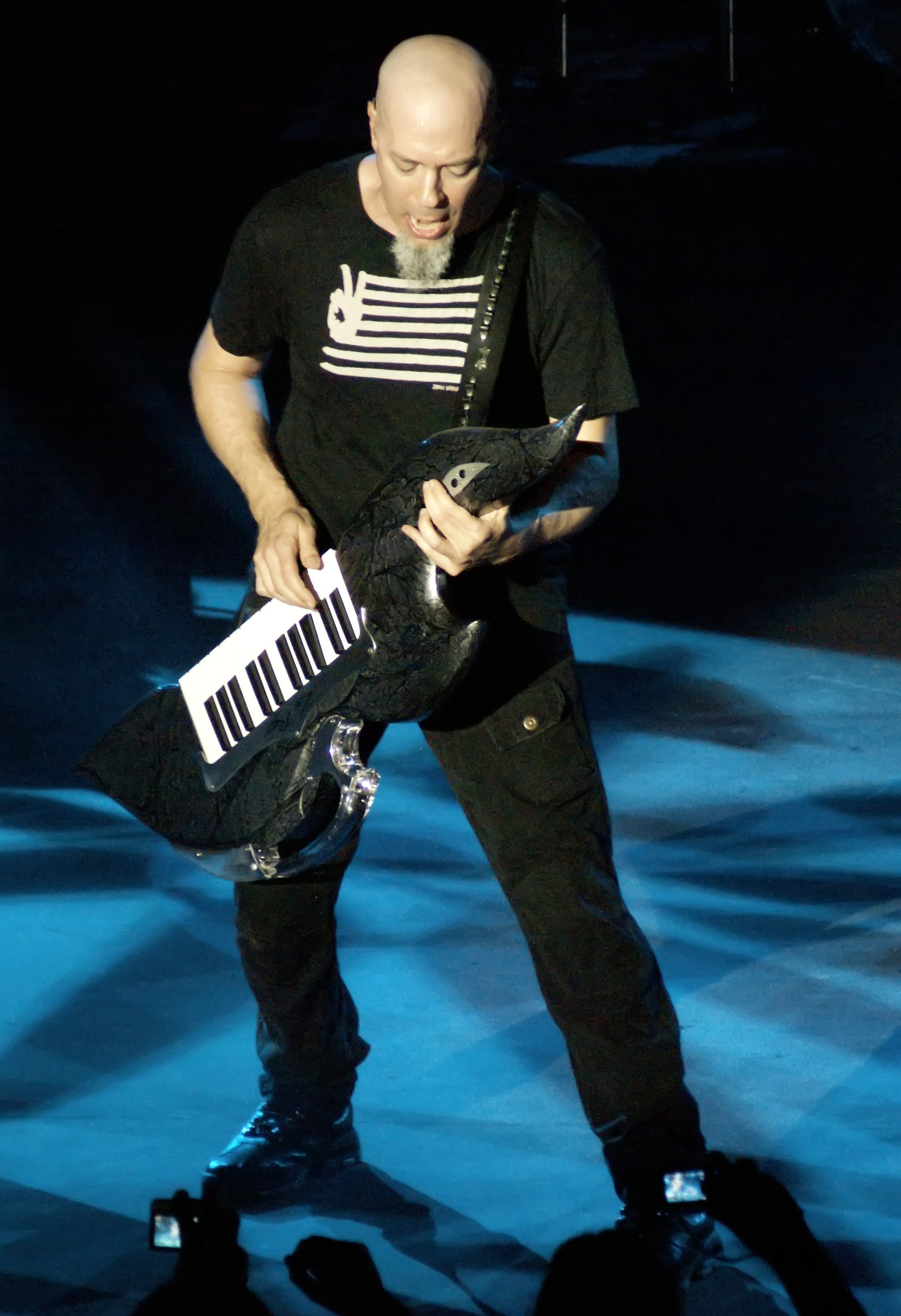 Jordan Ruddess in Rio with Dream Theater - 2006